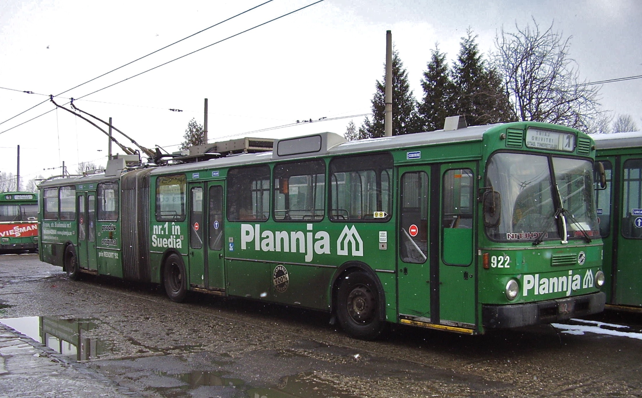 Braşov 922, a 1982/83 Mercedes-Benz O305GT trolleybus, was acquired in 2000 (probably through a dealer in secondhand buses) from the Basel trolleybus system (in Switzerland), where it had carried the same fleet number. It was originally used by the Kaiserslautern (Germany) trolleybus system, where it had been No. 137, and was acquired by Basel in 1986.